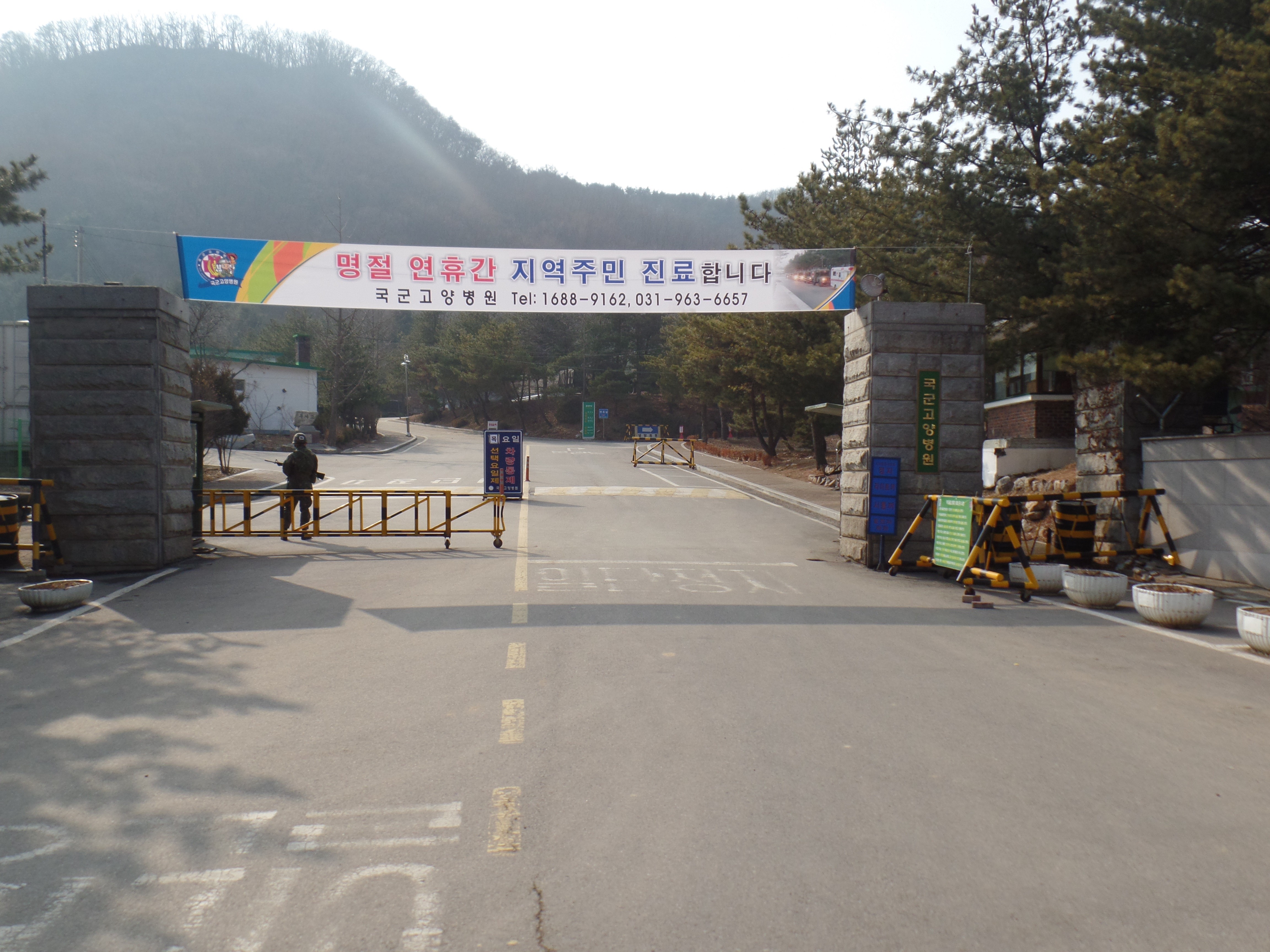 Main gate of Republic of Korea Armed Forces Goyang Hospital